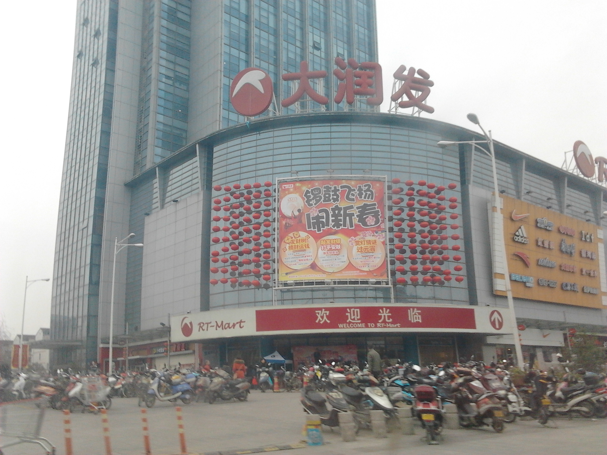 Rt-Mart Store in Suzhou